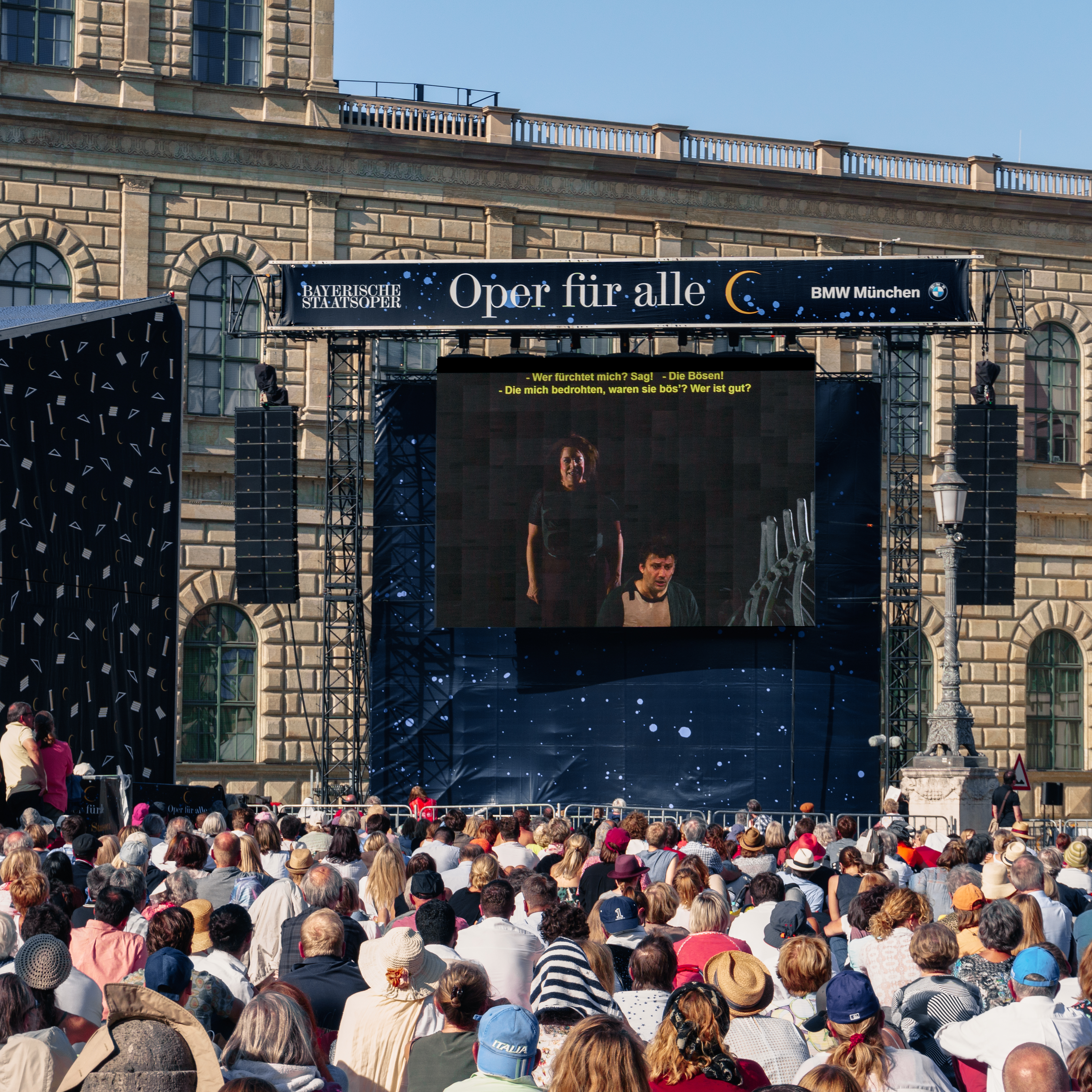 Jonas Kaufmann and Nina Stemme on screen in a Parsifal production at the "Oper für Alle" in front of the Bayerische Staatsoper in Munich.